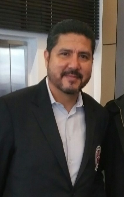 Anthony Calvillo at the 2017 Hall of Fame Luncheon in Ottawa.